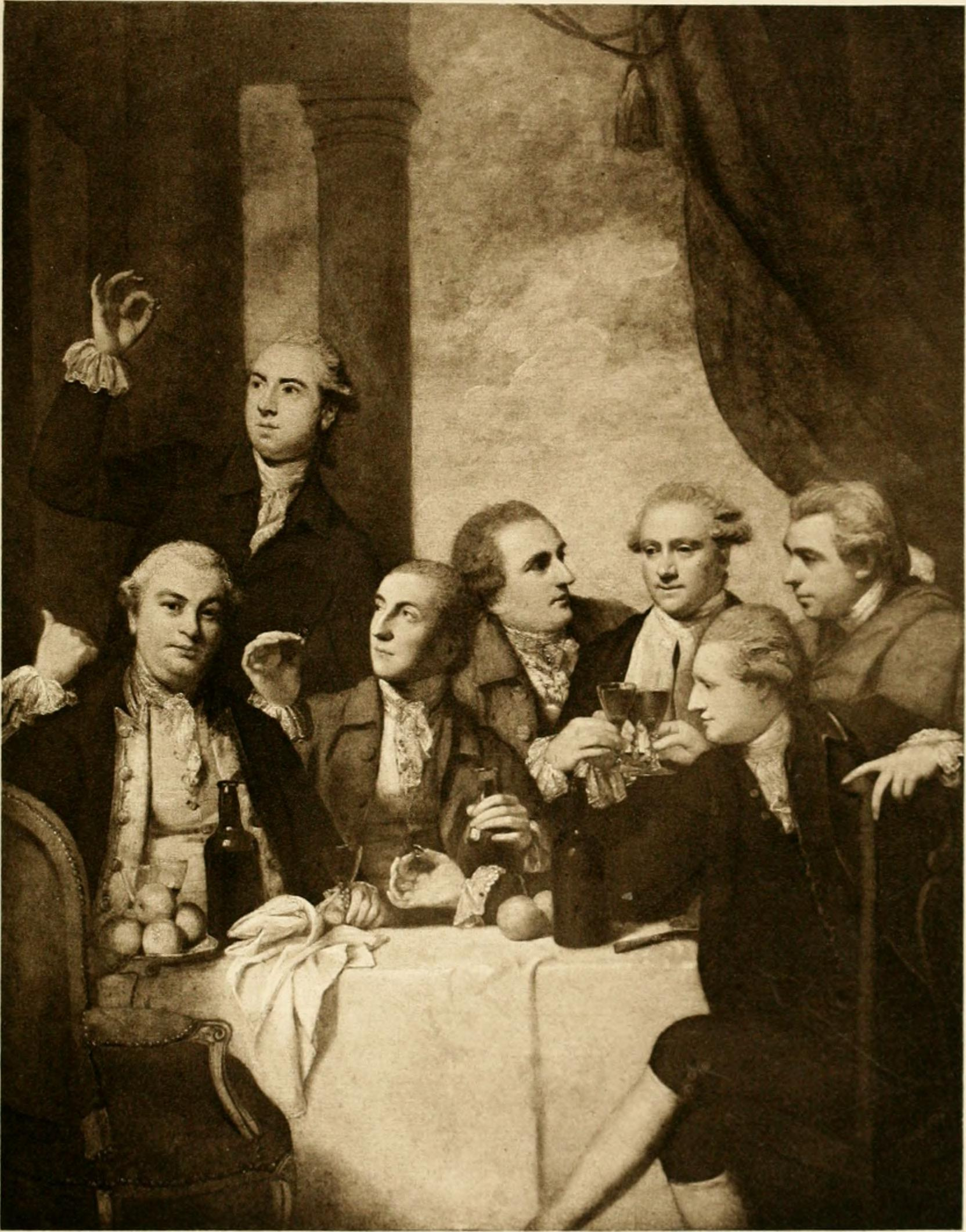 Title: A catalogue of the pictures and drawings in the National loan exhibition, in aid of National gallery funds, held in the Grafton Galleries, London (1909-1910) Year: 1909 (1900s) Authors: National Loan Exhibition (1909-1910 : London, England) Cook, Herbert Frederick, Sir, 1868-1939 Brockwell, Maurice Walter, 1869-1958 Grafton Galleries (London, England) Subjects: Art Publisher: London : W. Heinemann Text Appearing Before (this here) Image: SIR JOSHUA REYNOLDS, P.R.A.: 1723-1792 English School THE DILETTANTI SOCIETY, No. 1 PORTRAIT. A portrait group of seven figures: (1) Constantine, second Lord Mulgrave; (2) Henry Dundas, afterwards Lord Dundas; (3) the Earl of Seaforth; (4) the Hon. Charles Greville; (5) Mr. John Charles Crowle; (6) Mr. Banks afterwards Sir Joseph Banks; and (7) Lord Carmarthen, afterwards fifth Duke of Leeds; he has a long stick in his left hand Text Appearing After Image (other picture of the pair): 8 SIR JOSHUA REYNOLDS, P.R.A.: 1723-1792 English School THE DILETTANTI SOCIETY, No. 2 PORTRAIT group of seven figures placed round a table. On the left of the composition is (1) Sir Watkin Williams Wynn, his right hand on an open book, showing a reproduction of an Etruscan oenochoe, his left pointing to an amphora placed in the centre of the table; (2) Mr. J. Taylor, afterwards Sir John Taylor, stands at the back, holding a glass in his right hand and a piece of precious material in his left; (3) Mr. Stephen Payne-Gallwey sits in front of him, and is drinking out of a glass; (4) Sir William Hamilton, the husband of Romney's and Nelson's Lady Hamilton, seated in the centre of the group and wearing the Order of the Bath, points with his right hand to the open book on the table; (5) Mr. Richard Thompson, standing at the back slightly to the right of the centre of the composition, with his right hand raises his glass above his head; a sash of office is over his right shoulder; (6) Mr. Spencer Stanhope; and (7) Mr. John Lewin Smyth of Heath